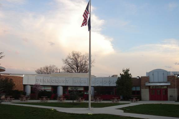 Picture of Penncrest High School, Located in Media, PA.